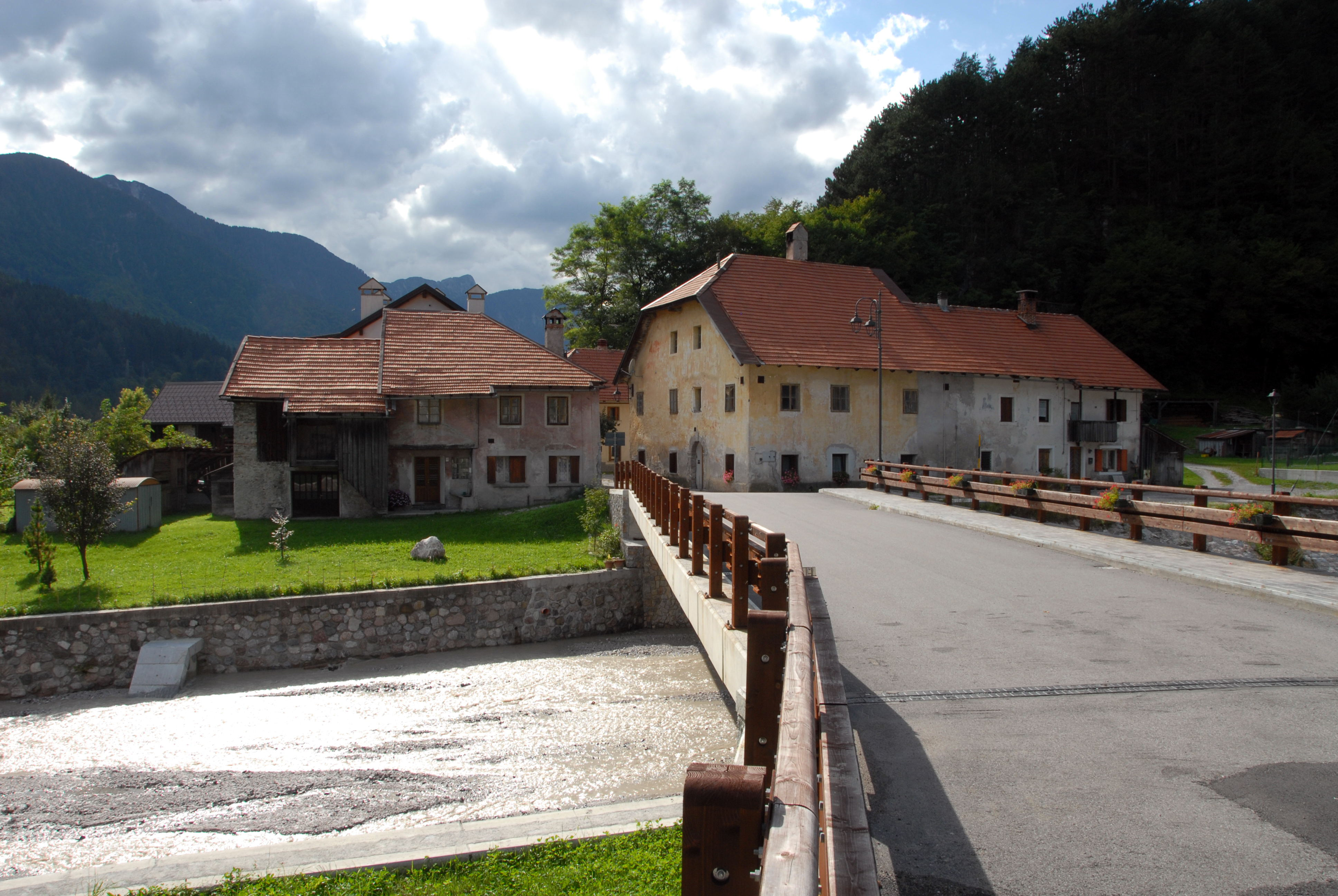 Bridge across the Rio Malborghetto in the old main road of Malborghetto, Val Canale, province of Udine, region Friuli-Venezia Giulia, Italy